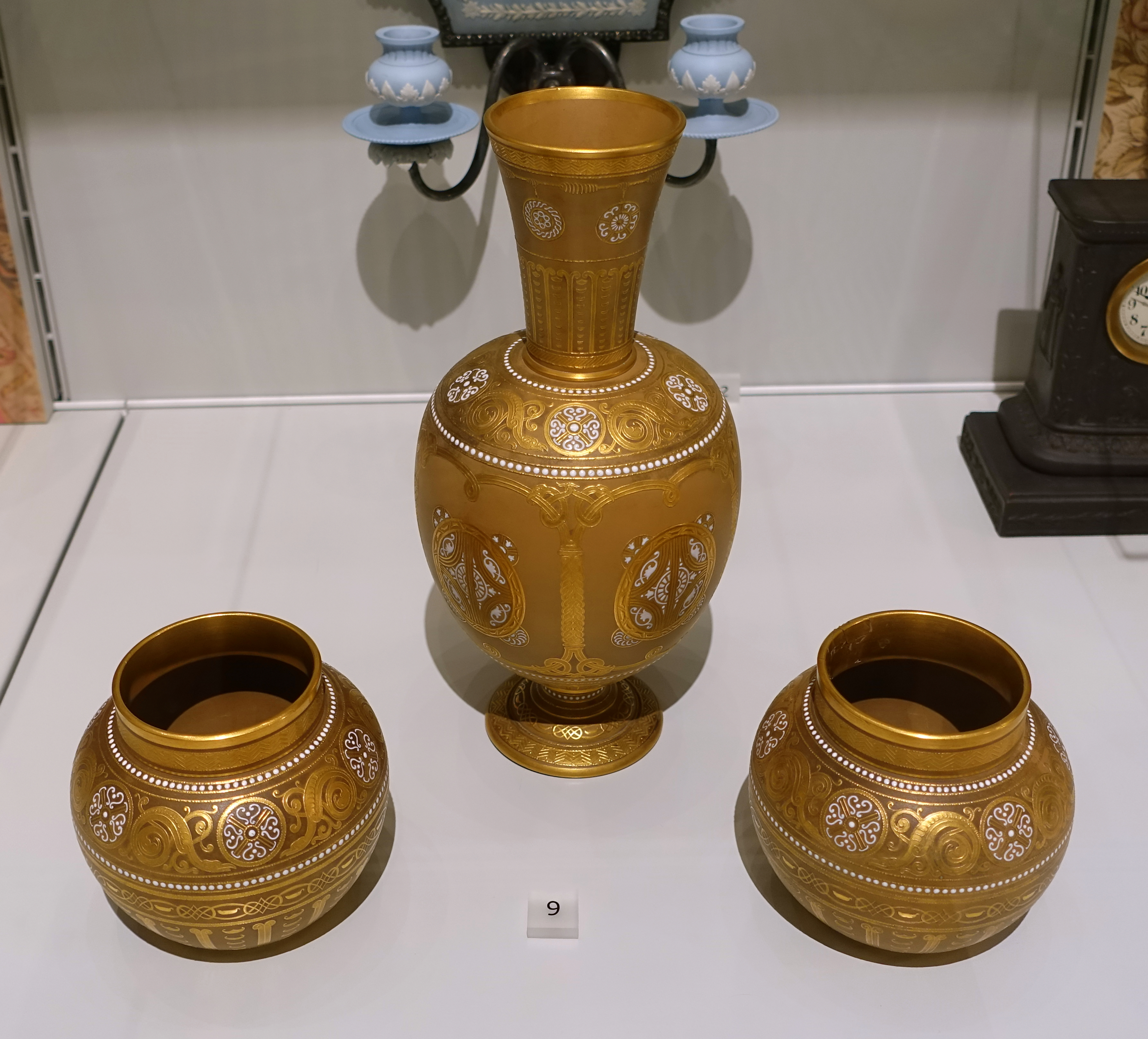 Exhibit in the Wedgwood Museum - Barlaston, Stoke-on-Trent, England.